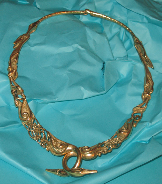 Modern reproduction of a Gaulish torc in bronze.